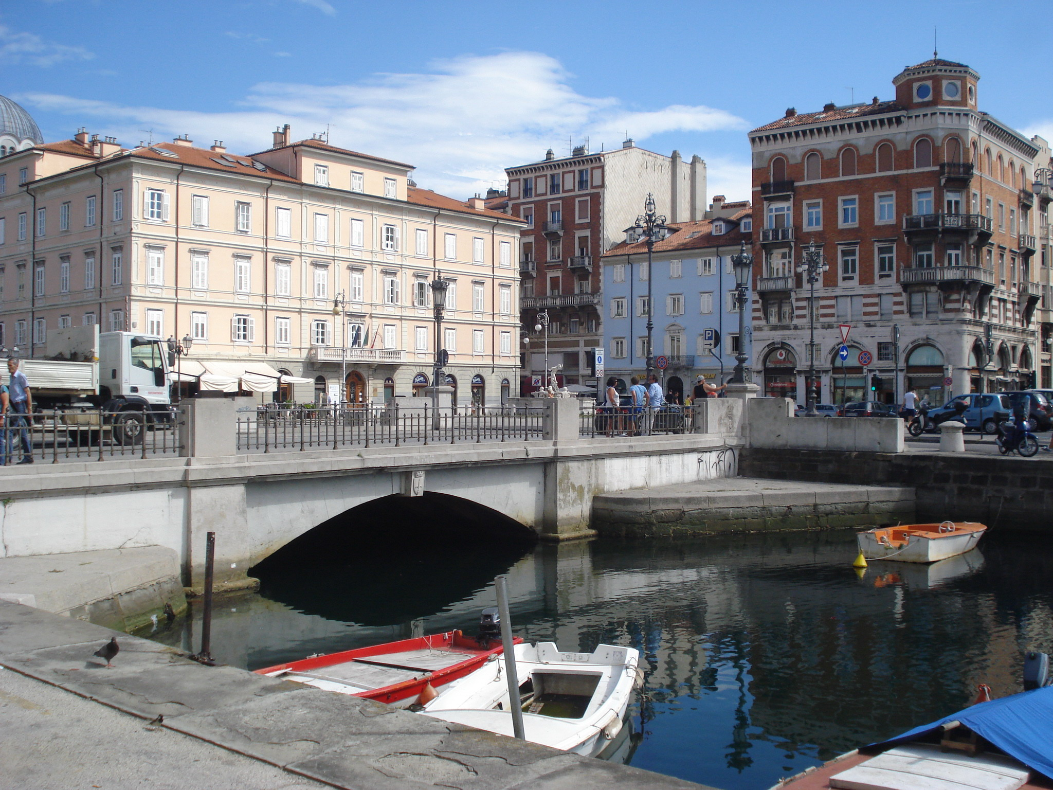 Ponterosso square (Red bridge square), Triest, Italy - bridge